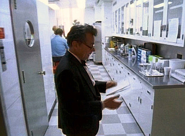 A butler in the White House Butlers Pantry in 2002.